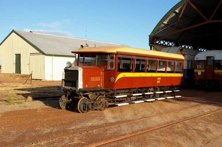 Licensing